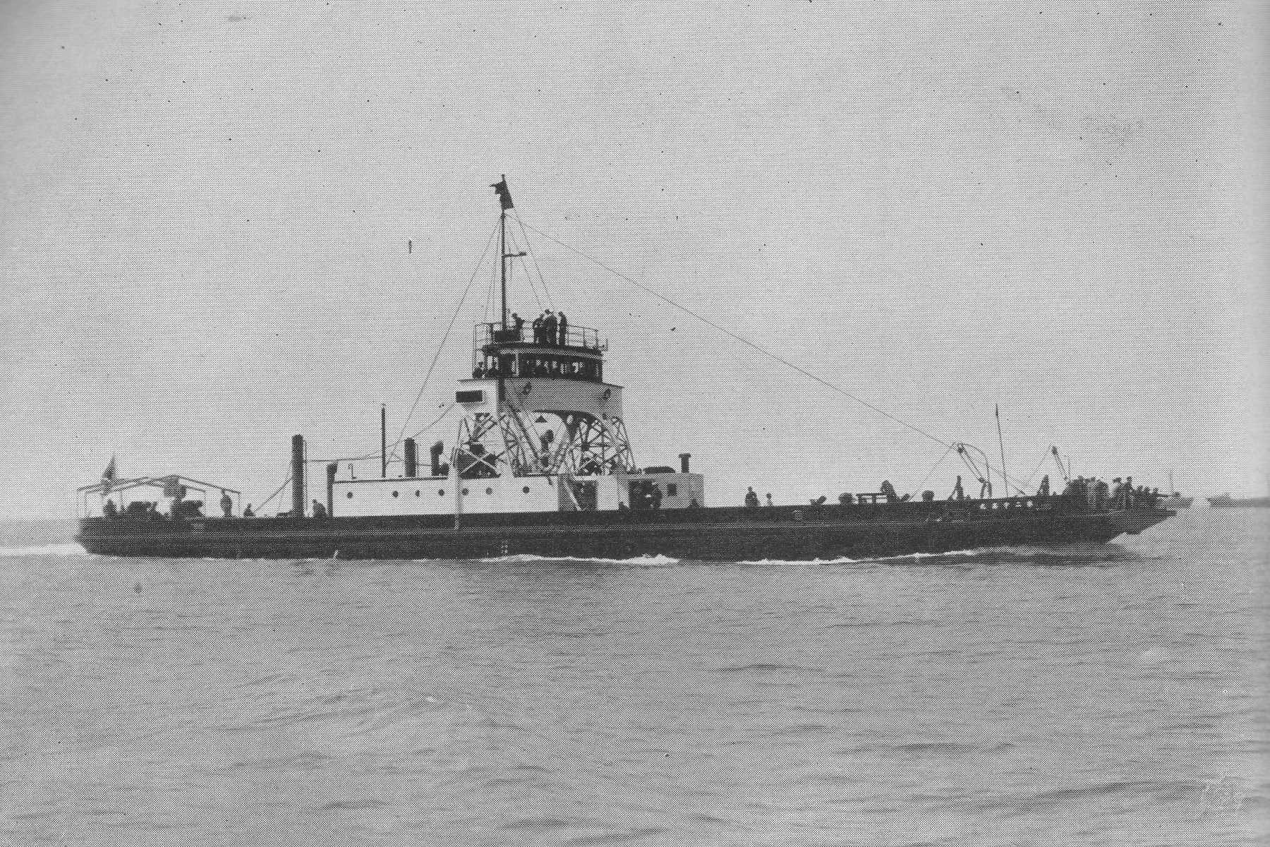 Uko (Uno - Takamatsu Ferry "Uko Maru No. 2" (1934)